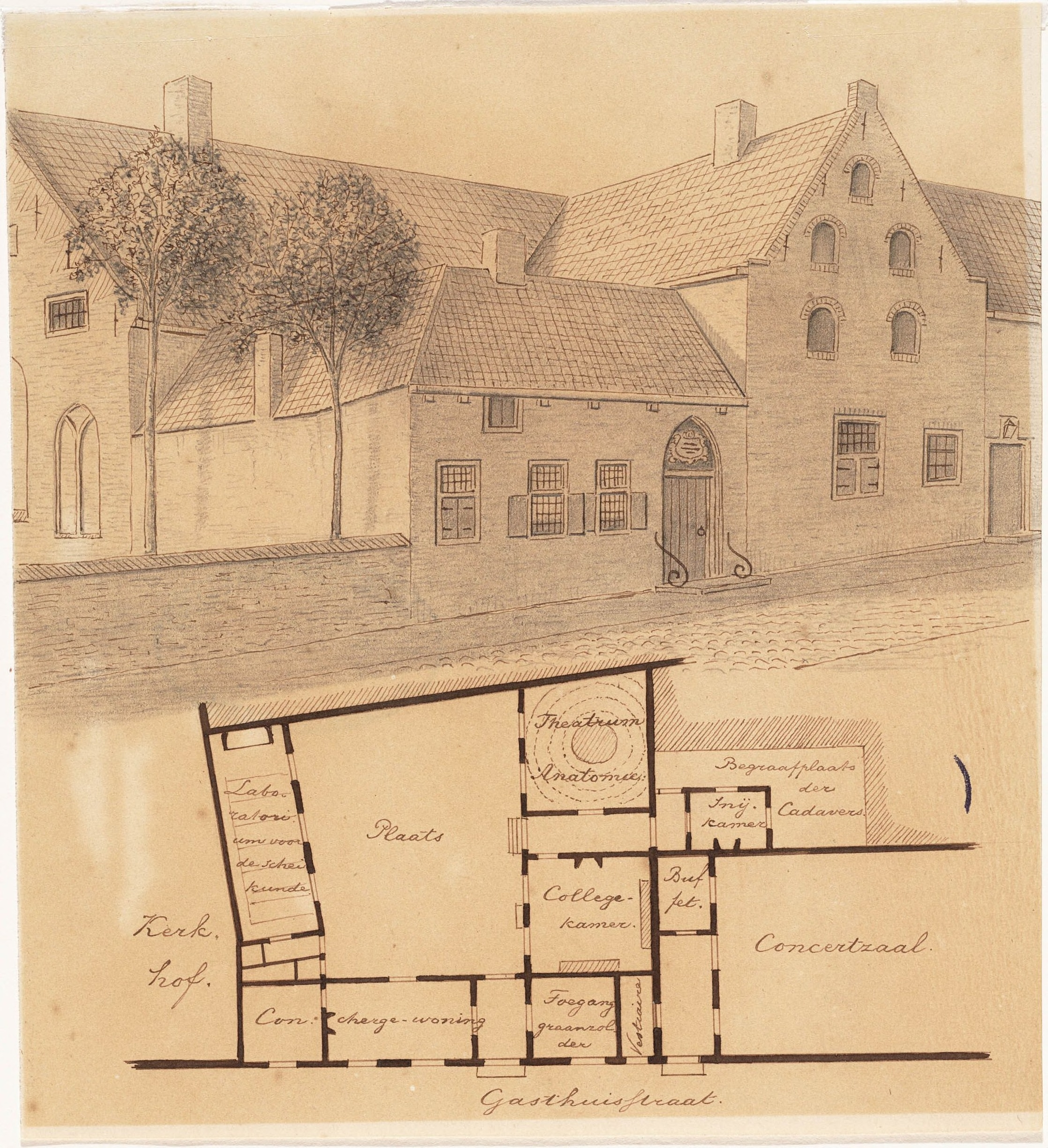 A drawing of the 'geneeskundige school Alkmaar' by Cornelis Bruinvis. Drawing made in 1874, pictured is the state in 1850.